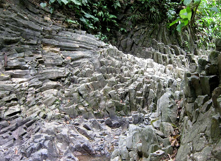 Columnar Basalt formation is present along a small river in Teck Guan Cocoa Village, Tawau in Malaysia. This area is private and visited by only a few people thus making this place almost unknown to the public.